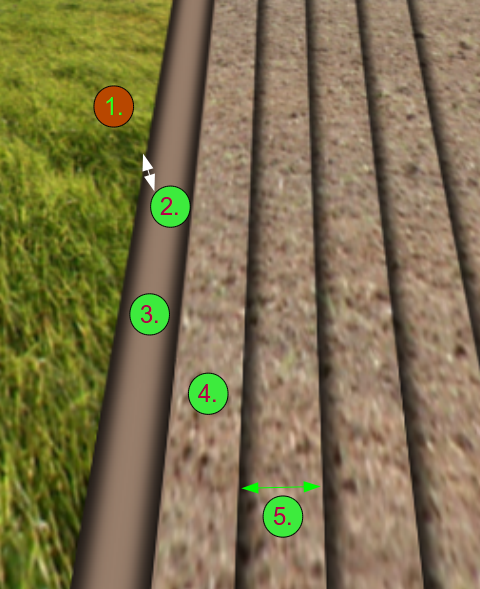 Sketch of a field being ploughed